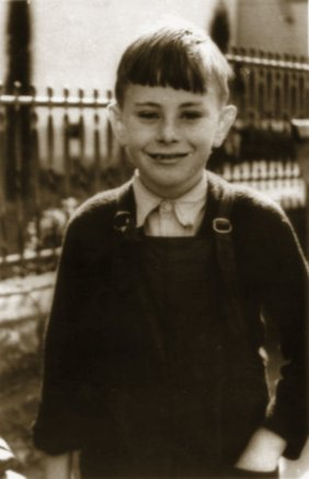 Photograph of John Howard as a boy, taken in the 1940s. Howard was born in 1939. Image sourced from Sydney Morning Herald flash animation of the Howard era (link).